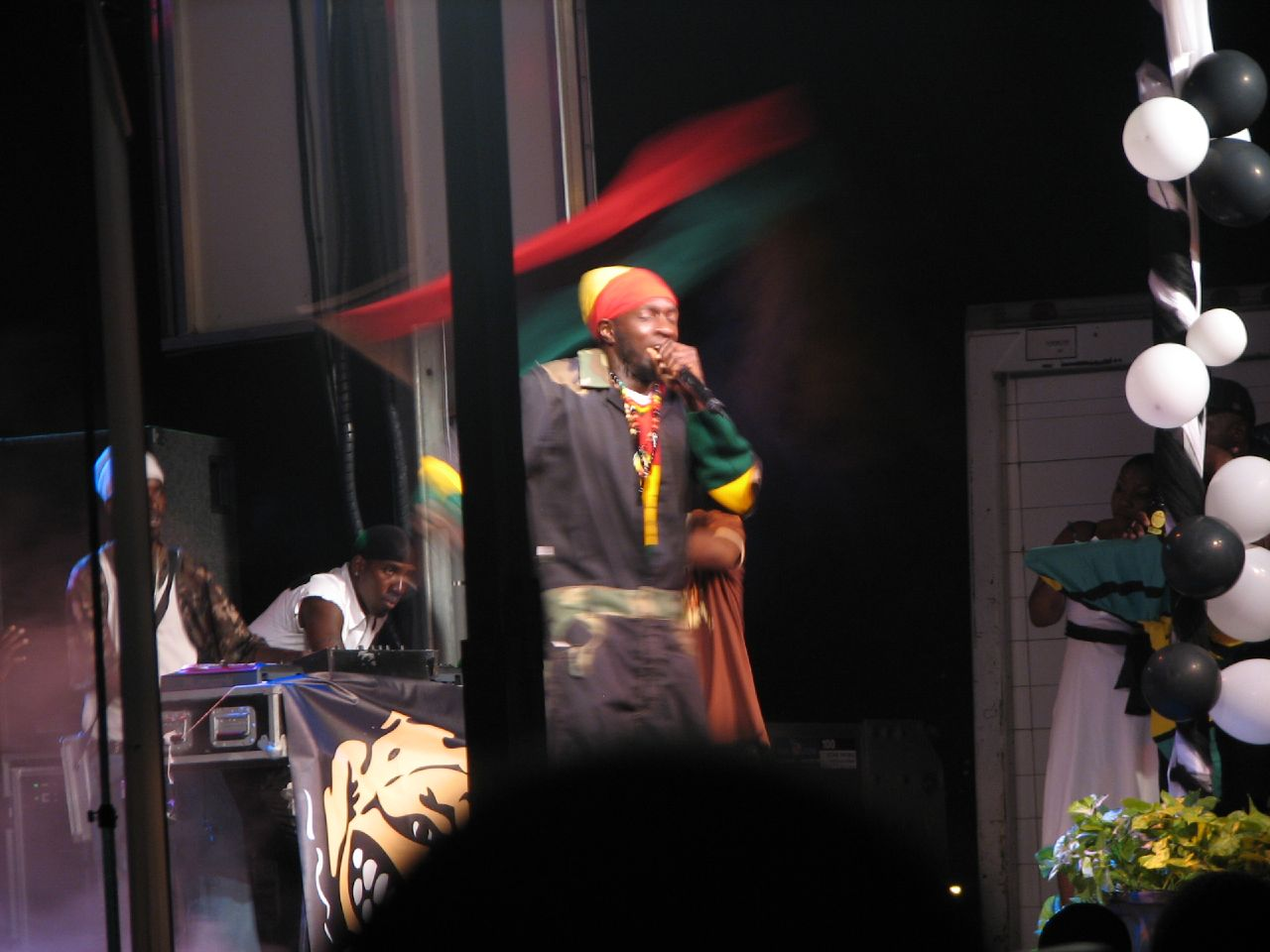 That dude in the back must be tired (original description), Sizzla live 2007 at the Portmore Awards